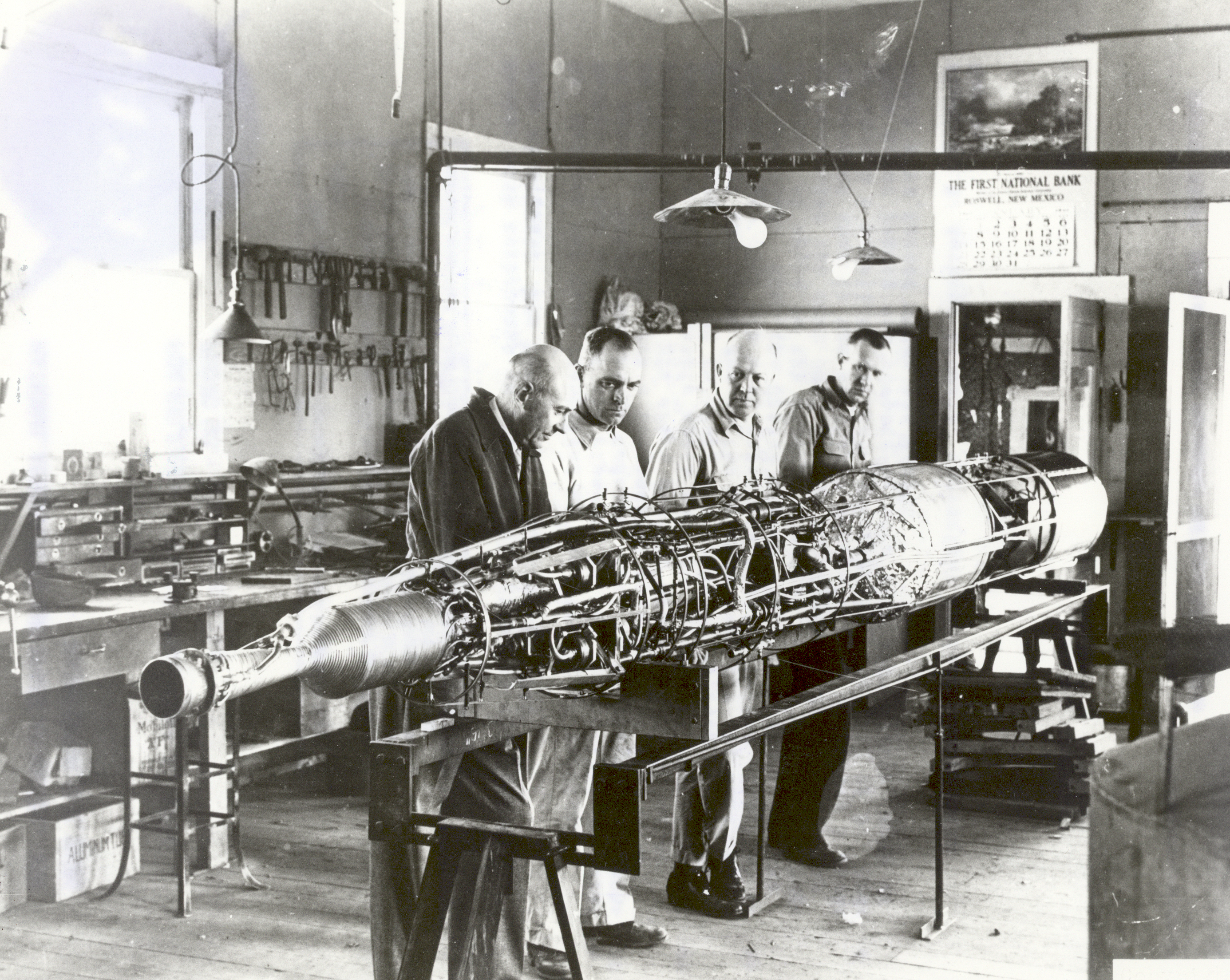 Rocket with turbopumps that inject propellants into the combustion chamber on its assembly frame is shown without its casing at the Goddard shop in Roswell, New Mexico, in 1940. With Dr. Robert Goddard (far left) is Nils Ljungquist, machinist; Albert Kisk, brother-in-law and machinist; and Charles Mansur, welder.